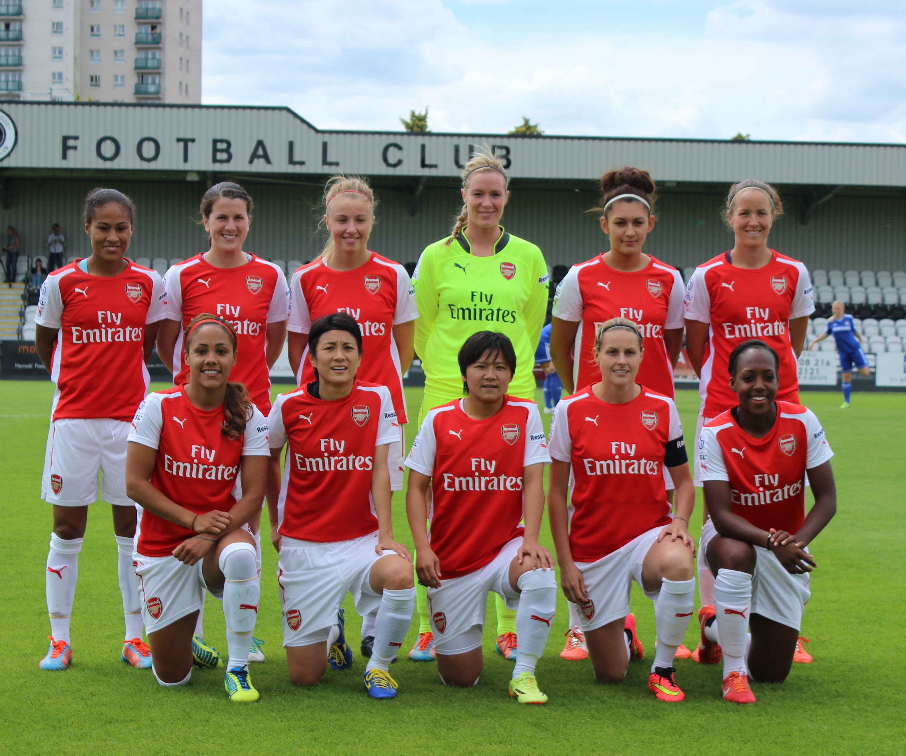 Arsenal Ladies first team photo in the new Puma kit